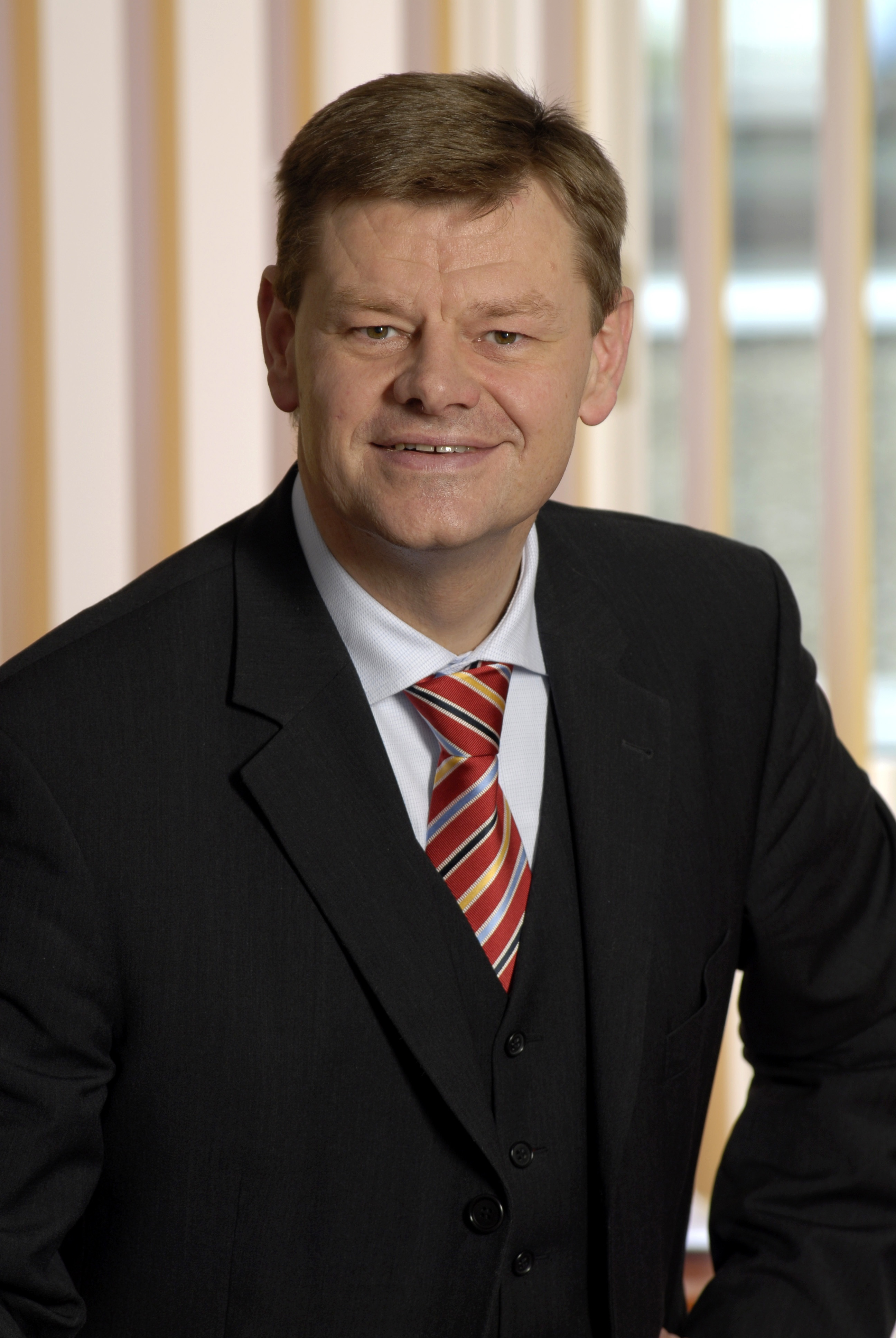 Stefan_Heinloth